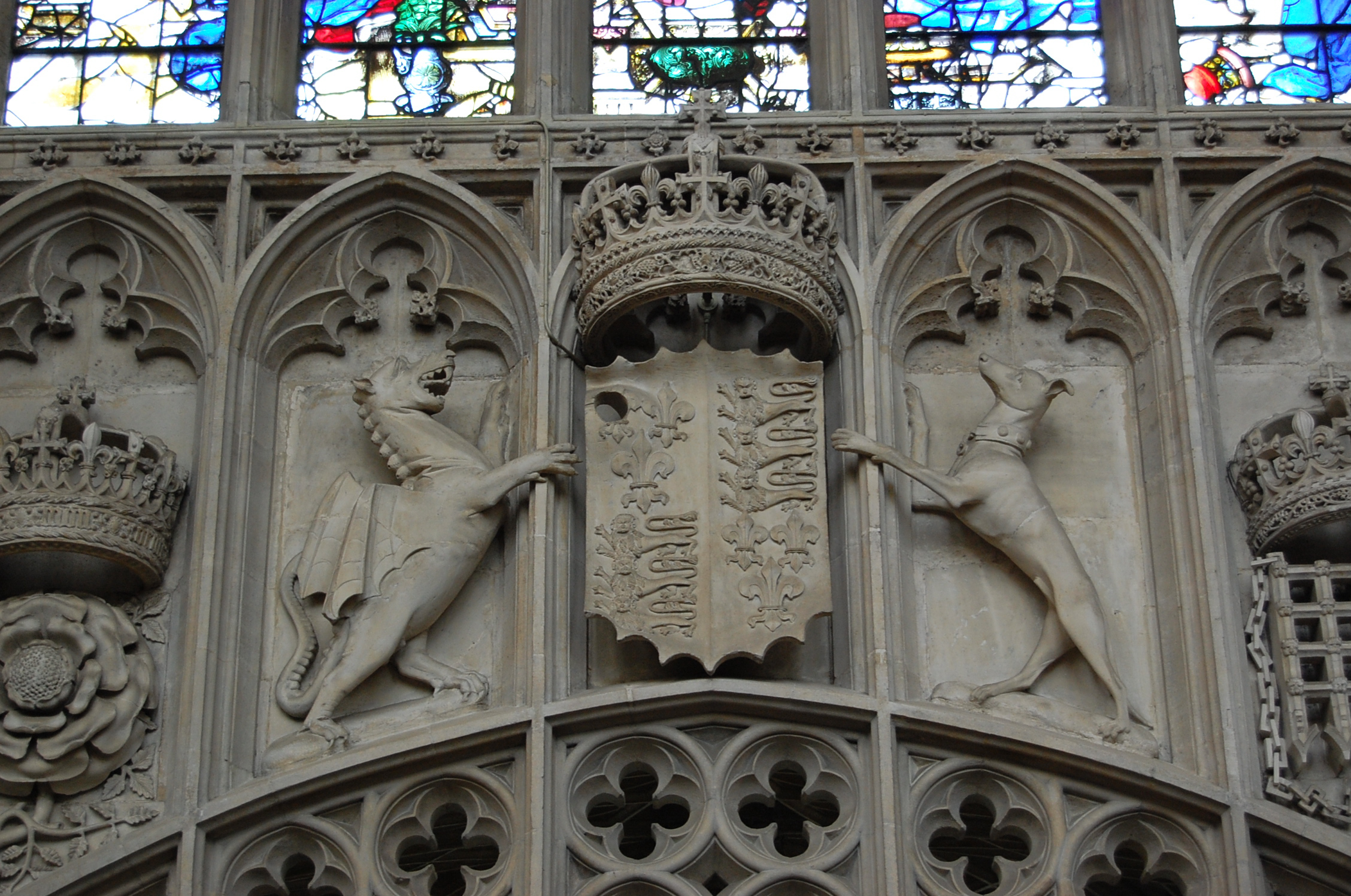 King's_College_Chapel_-_stonework_detail_-_Cambridge_-_UK_-_2007.jpg